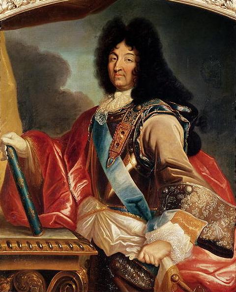 Portrait of Louis XIV of France (1638-1715)